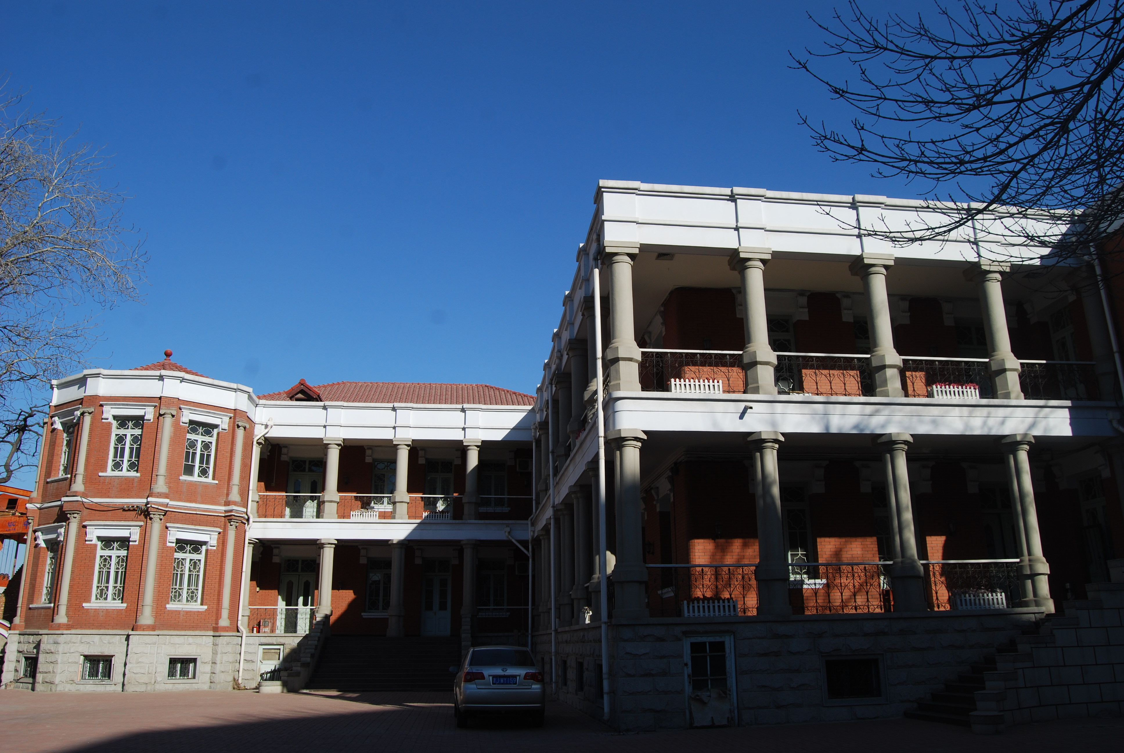 Former residence of Liu Rangong in Jianguo Dao No. 66, Hebei District, Tianjin